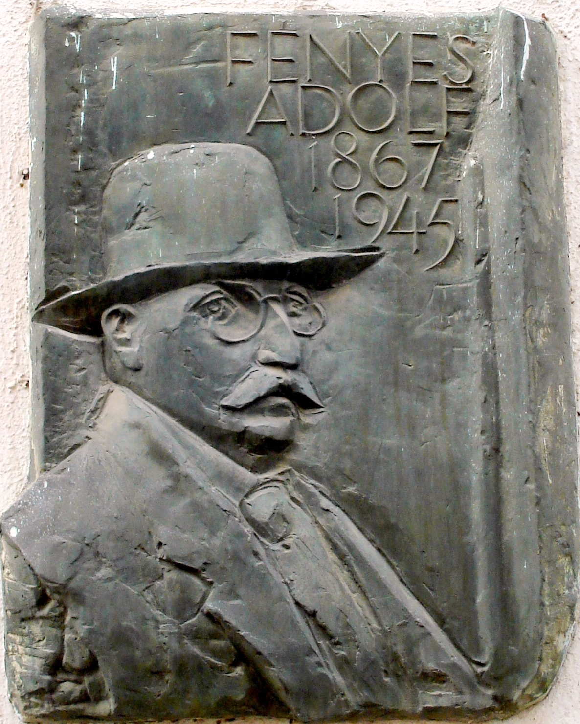 Commemorative plaque to Mr. Adolf Fényes (1867-1945) Hungarian painter in the street bearing his name. Author of the bronz relief was Mr. András Kiss Nagy. (Budapest, District III, Fényes Adolf Street Nr 10).